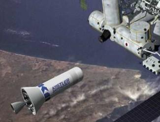 Computer generated image of Rocketplane-Kistler K-1 upper stage approaches the International Space Station for a COTS delivery.